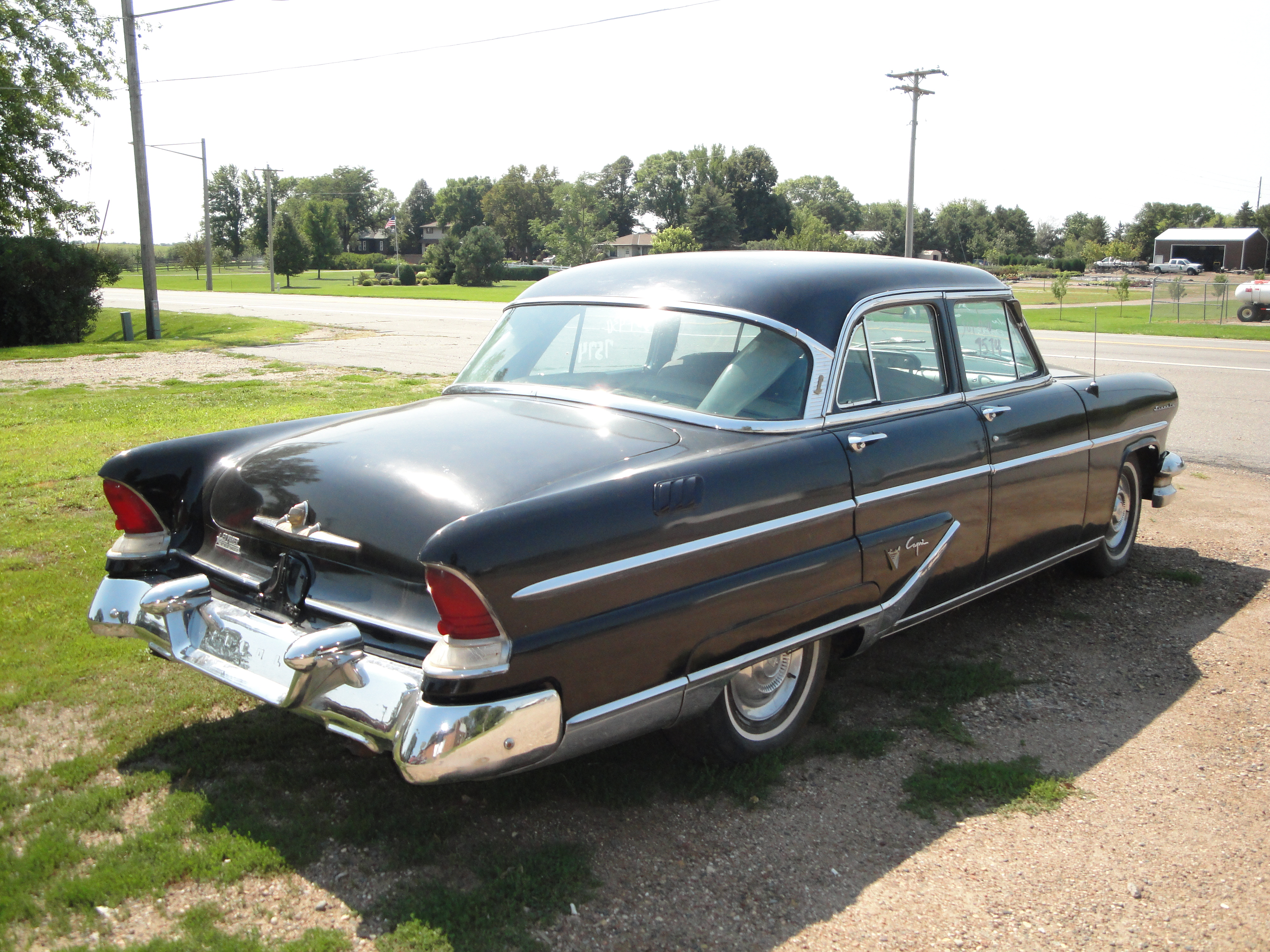 with A/C (air conditioning)